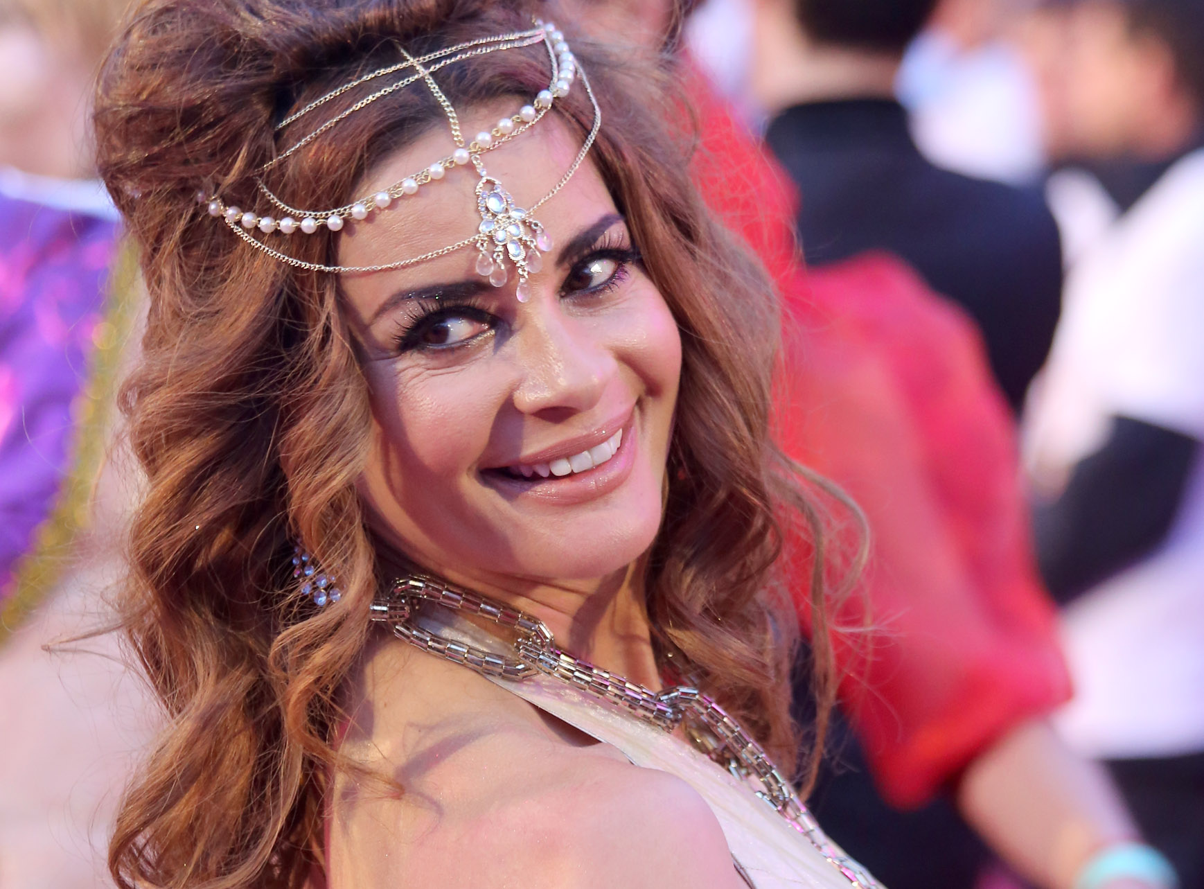 Gitta Saxx on the 'magenta carpet' at Life Ball 2013 at the square in front of the city hall of Vienna, Vienna, Austria.